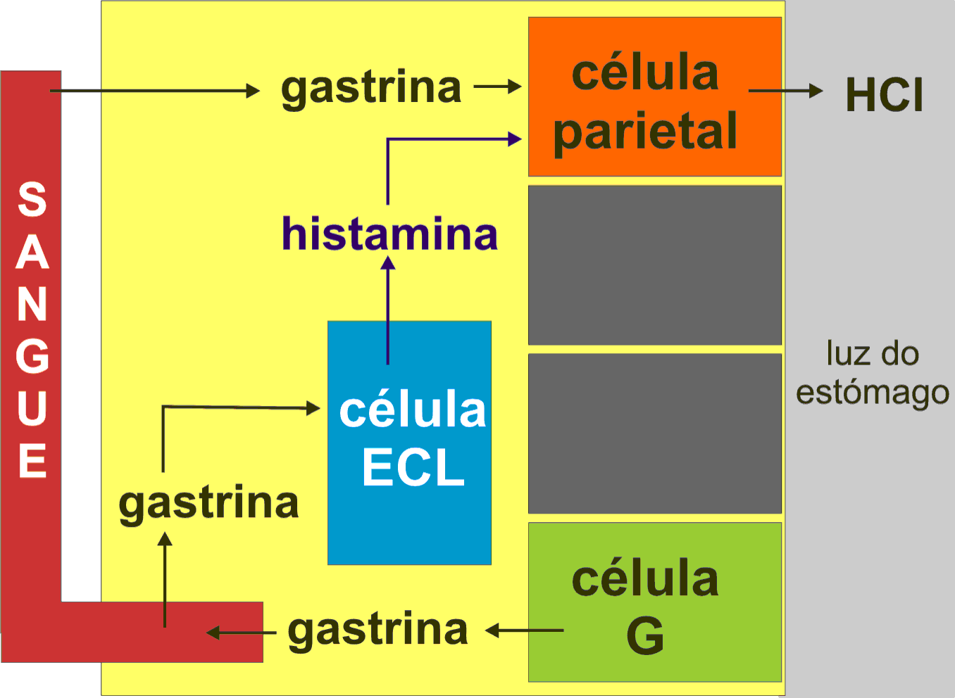 Regulation and secretion of ECL and parietal cells labelled in Galician